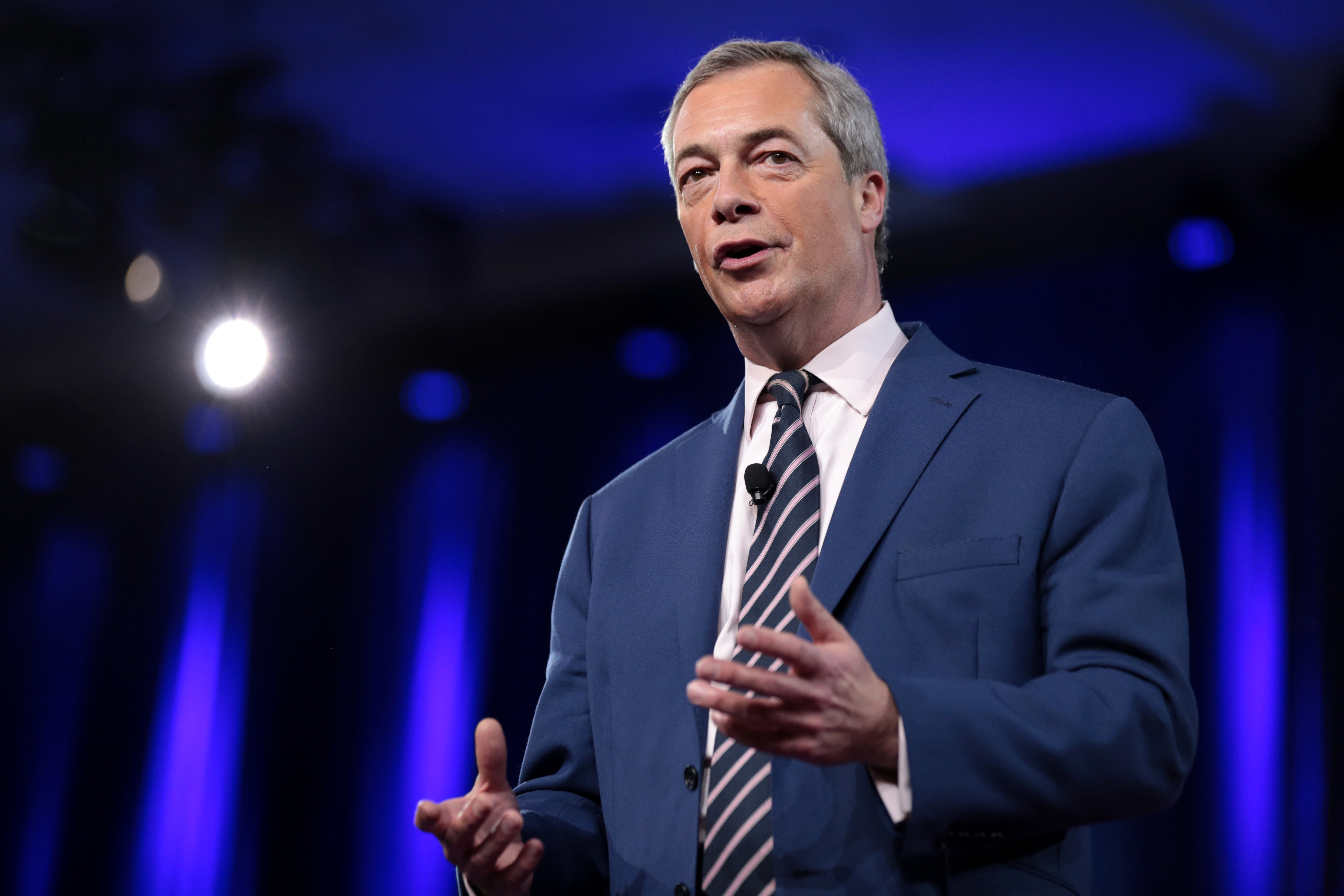 Member of the European Parliament Nigel Farage speaking at the 2017 Conservative Political Action Conference (CPAC) in National Harbor, Maryland.